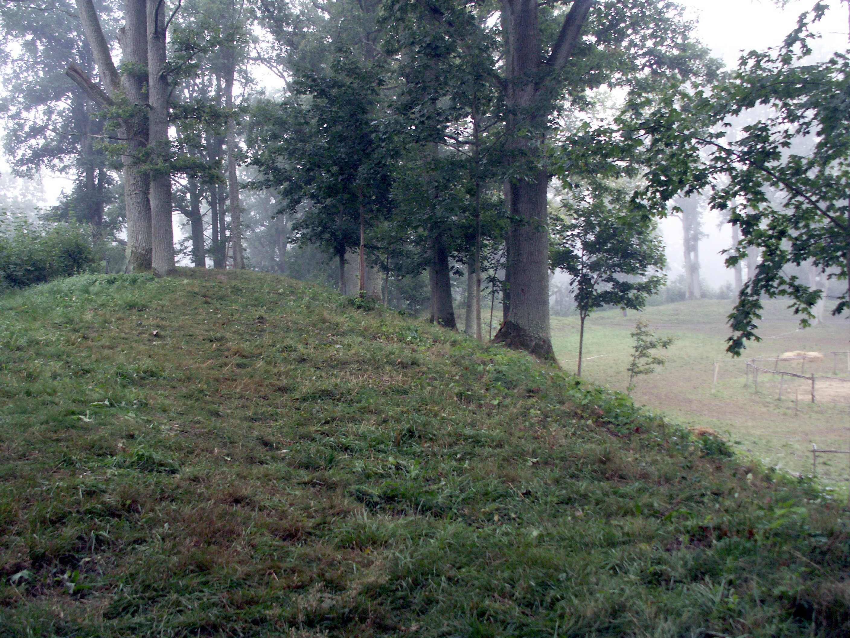 Apuolė hillfort, Skuodas district, Lithuania